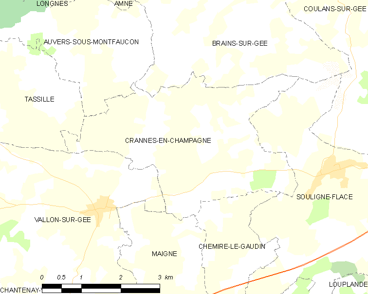 Map of French municipality